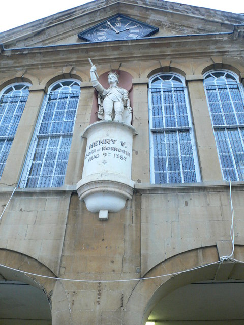 Henry V, Shire Hall, Monmouth A statue to Henry V below the clock face of the Shire Hall in Monmouth. Henry V was born in Monmouth Castlein 1387 and the statue was placed on the Shire Hall in 1792.